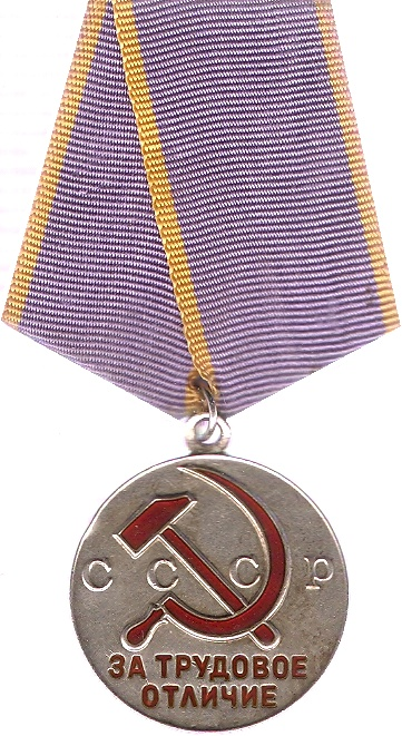 Soviet Medal For Distinguished Labour